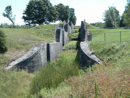 An abandoned four-flight lock on the Black River Canal in Lewis County, New York, USA. This photograph was made by Wikipedia user Ebedgert.